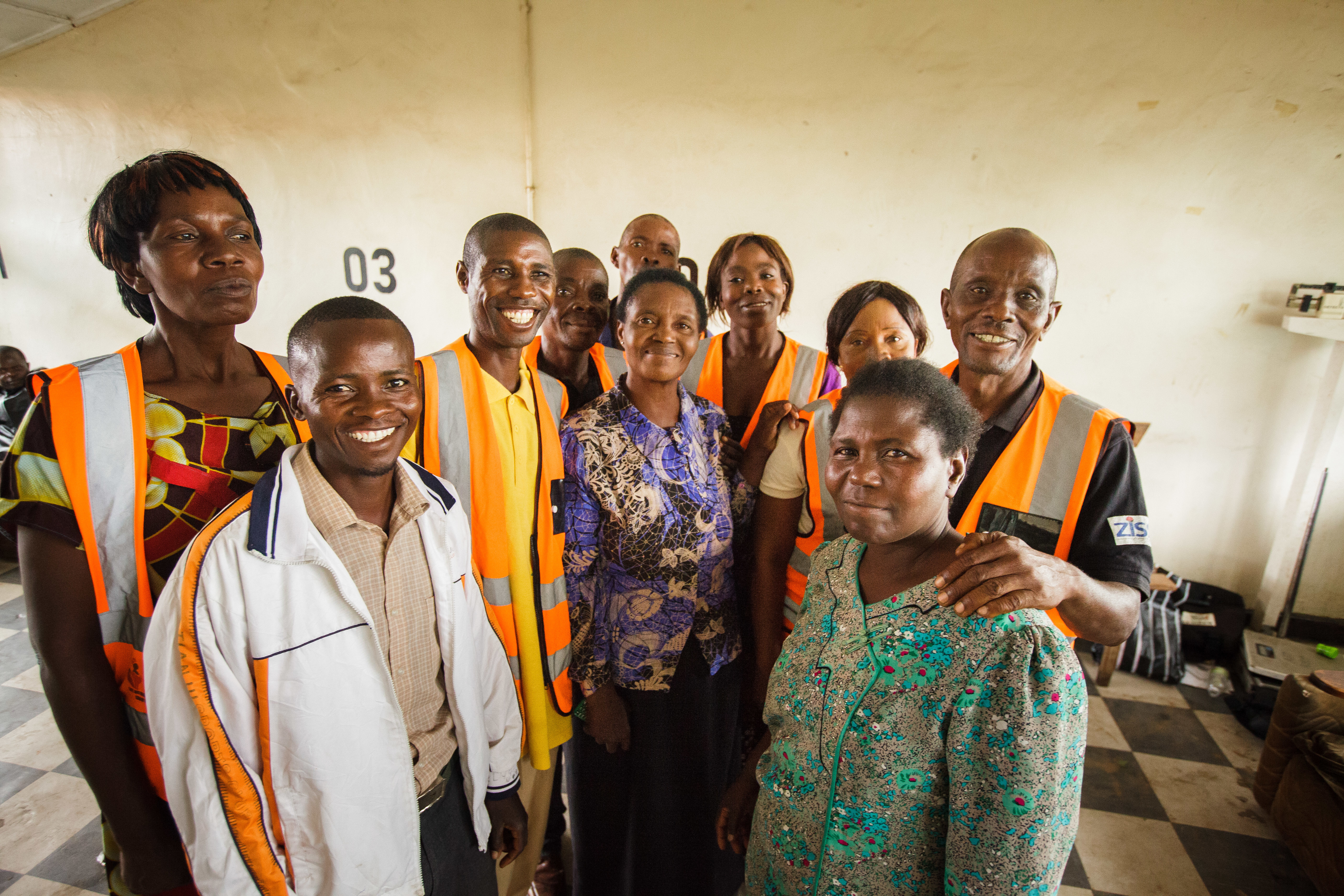 Safe Motherhood Action Group meeting at the Stage 2 Urban Health Center, Samfya, Zambia